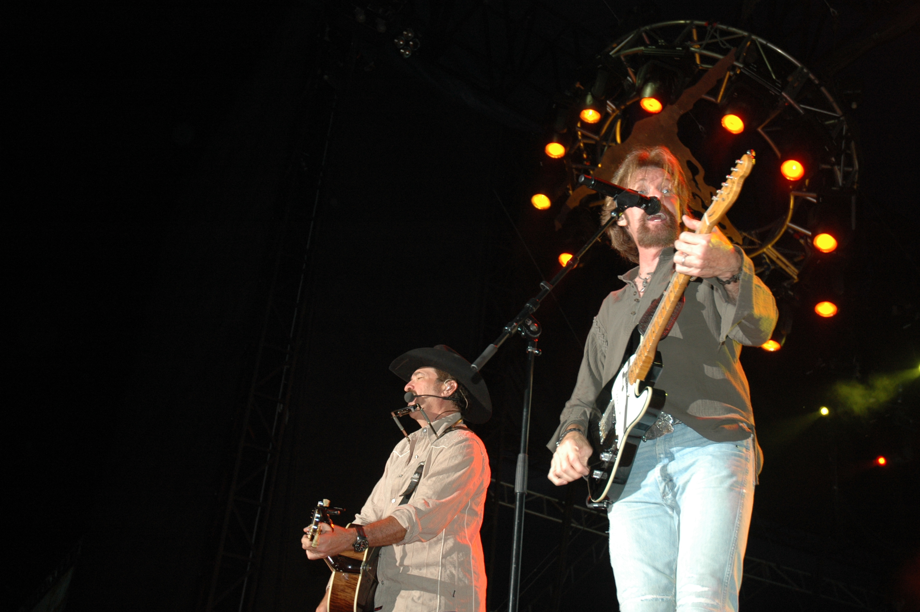 Brooks & Dunn, Shine Sports Field at Aberdeen Proving Ground for the Army Entertainment Concert, 2009